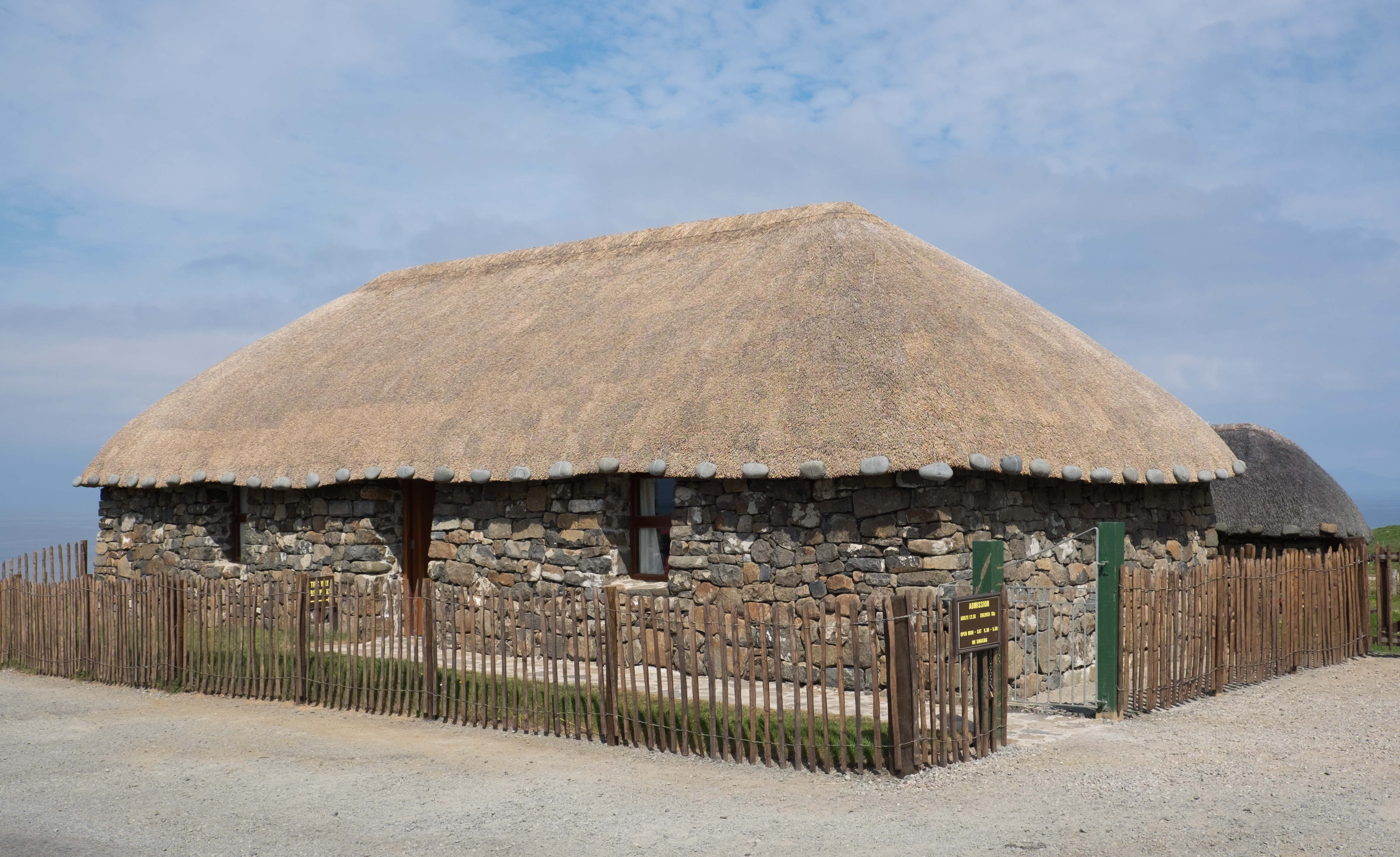 The visitor reception at the Skye Museum of Island Life, Kilmuir, Isle of Skye